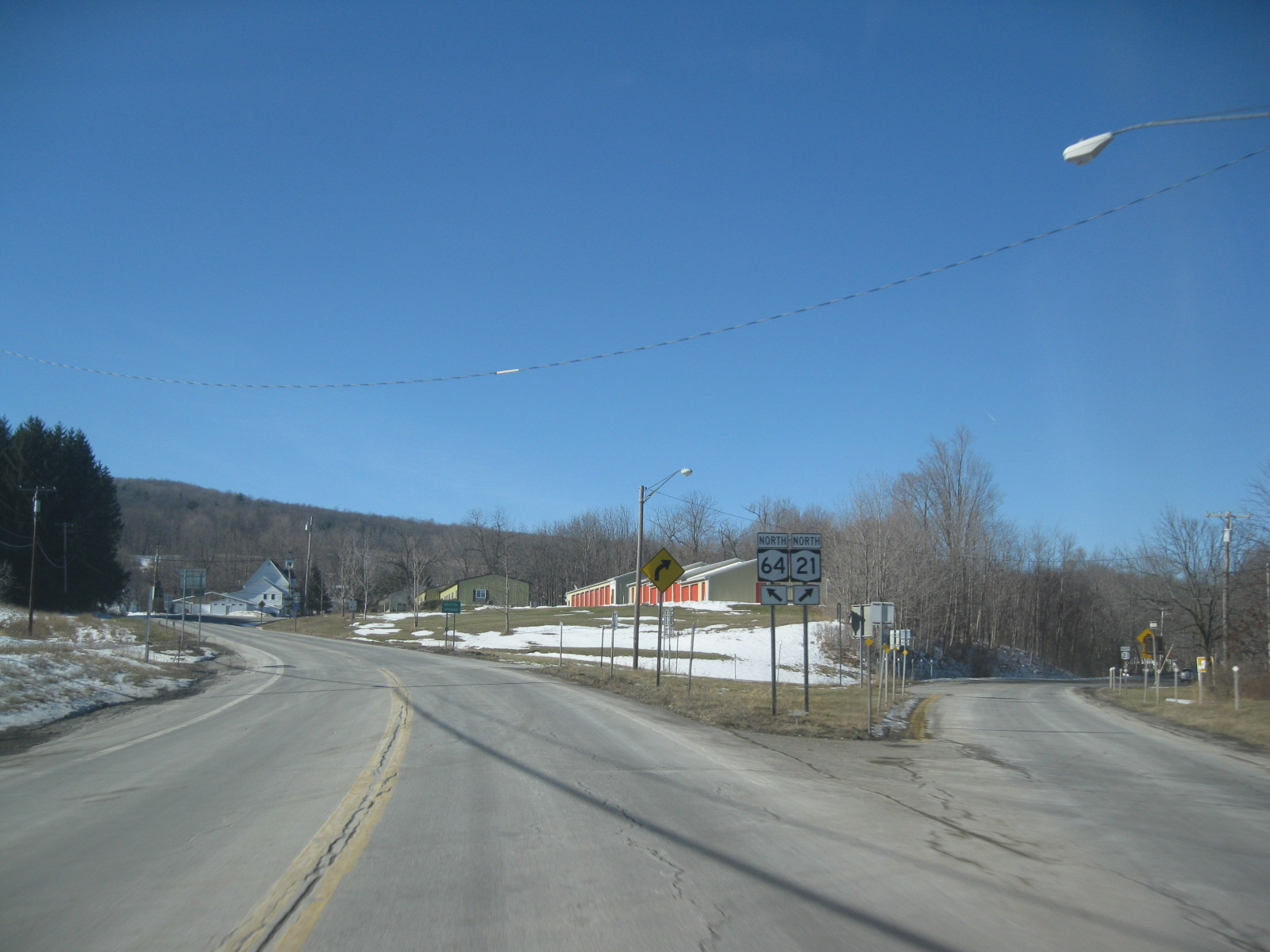 The fork of New York State Route 64 and New York State Route 21 in South Bristol, New York.